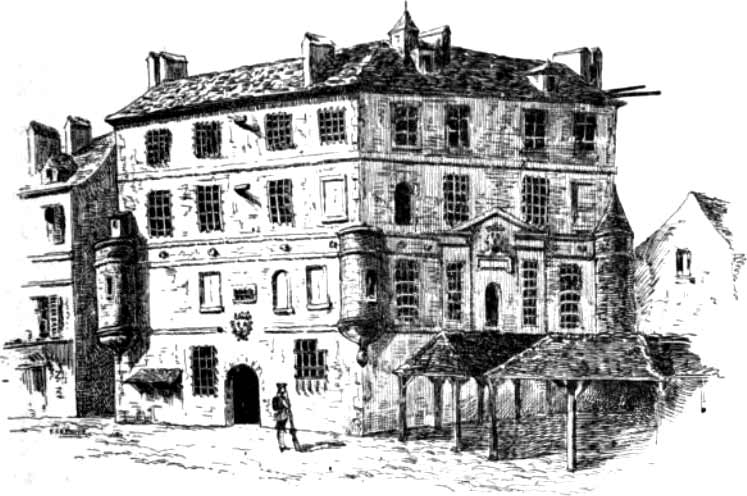 View of the Abbaye Prison in Paris, France, 1793.